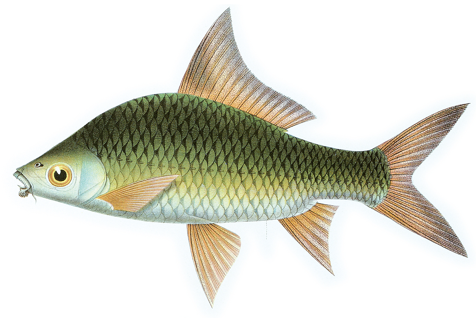 Osteochilus schlegelii , described in the original publication as 'Rohita (Rohita) Schlegeli